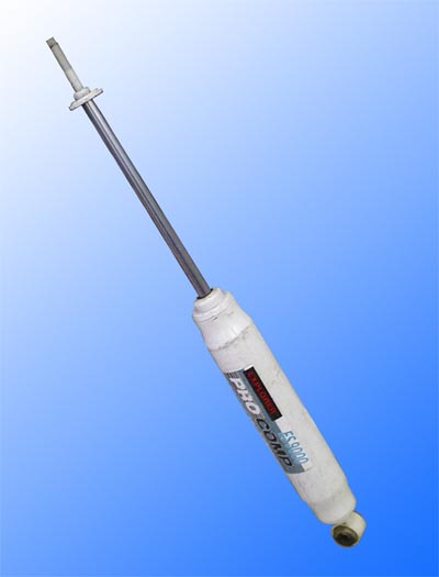 Gas Damper of car